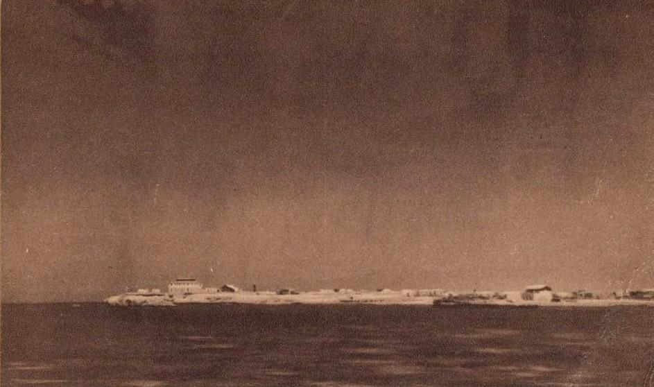 Obock, circa 1920-1930. The two-storey house on the right was the residence of Henry de Monfreid and his family after 1915. On the left, the Lagarde House, named for the first governor of French Somaliland. After Djibouti became the capital during the late 1890s, Obock was quickly abandoned by the European community.